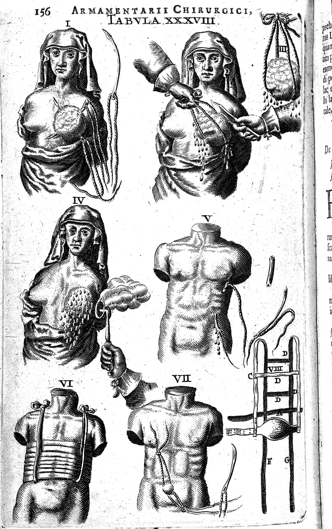 Amputation of the breast. Wellcome Images Keywords: surgical operation